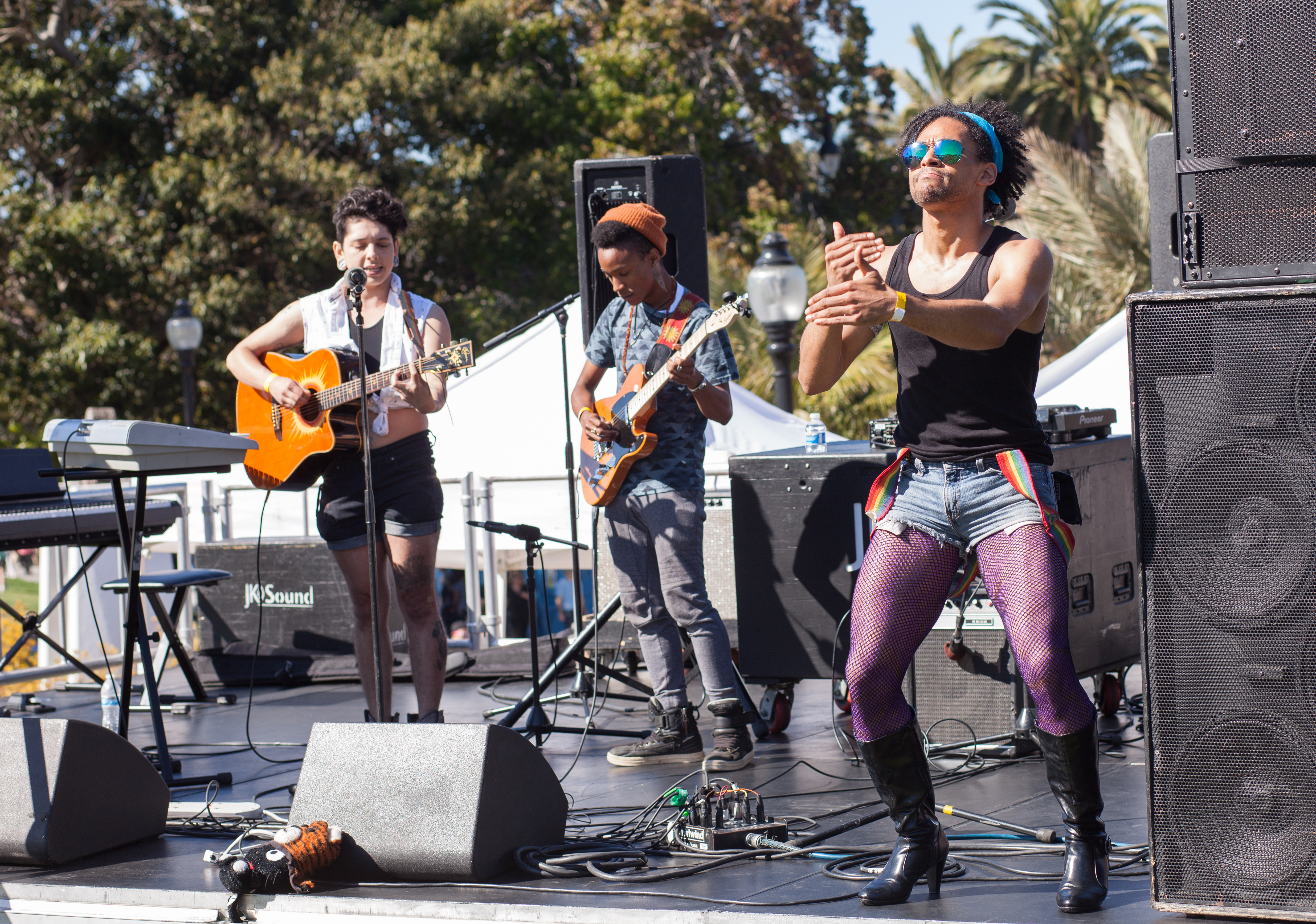 The musical group Caveta Envinada and a sign language interpreter perform on stage at the San Francisco Trans March 2016.